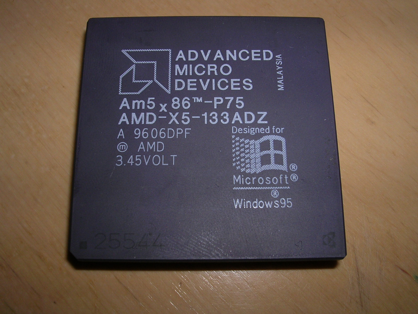 AMD Am5x86-P75